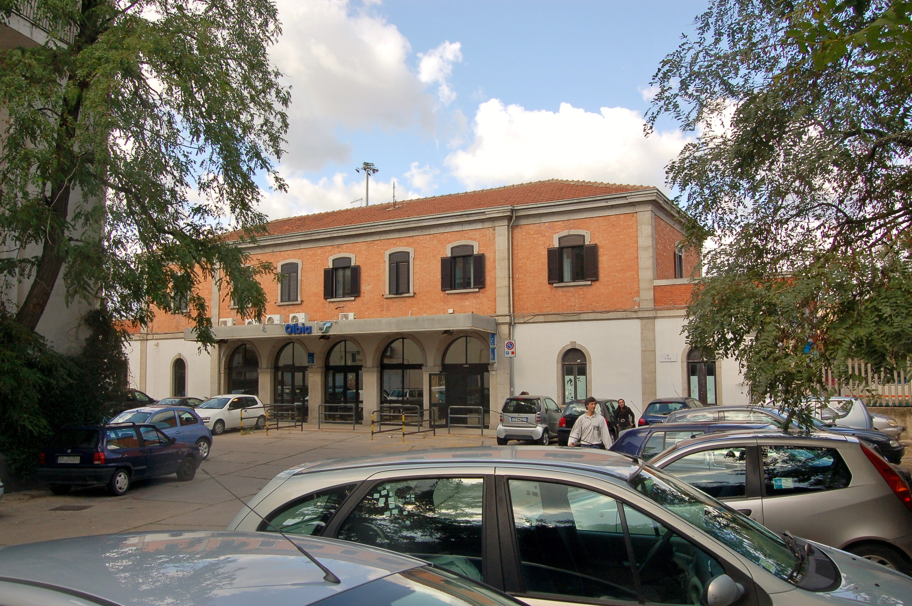 Entrance to Olbia railway station, Sardinia, Italy